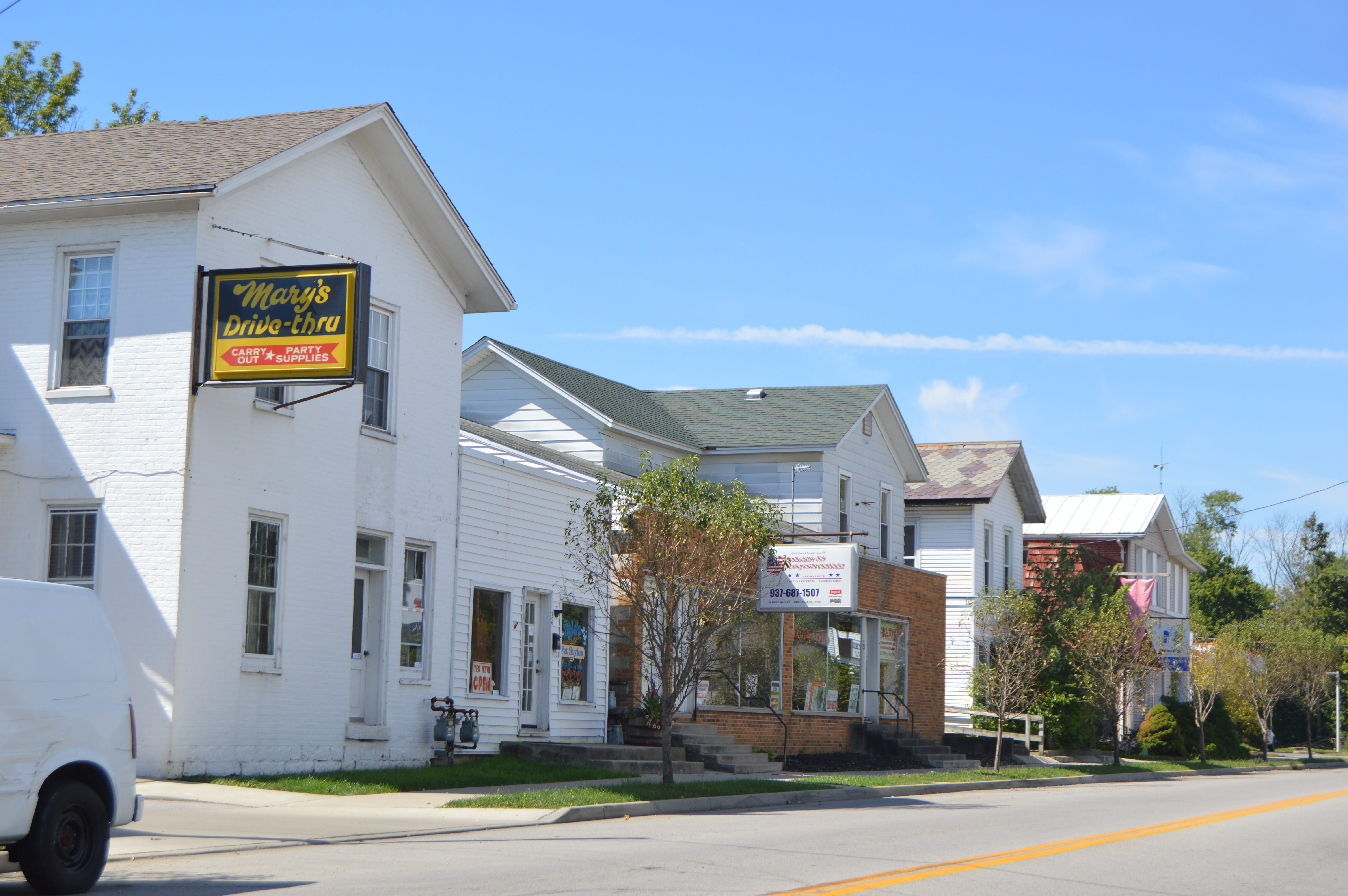 Buildings on the southern side of Main Street (U.S. Route 35) west of Church Street in central New Lebanon, Ohio, United States.